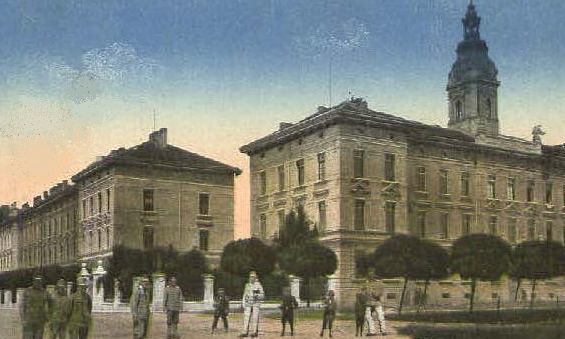 Barracks of the Austrian „Landwehr“ in Budweis (Bohemia)